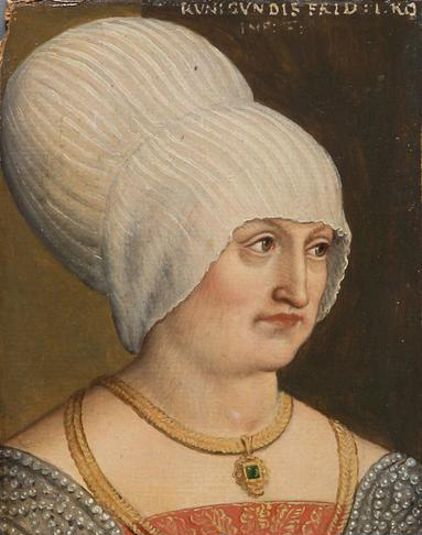 Kunigunde of Austria